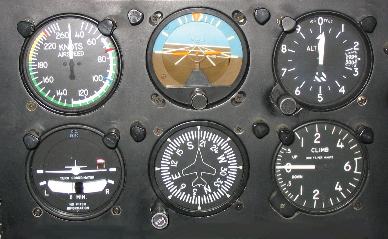 Six flight instruments in an aircraft cockpits, sometimes refered to as "basic-T" or "basic flight instruments".